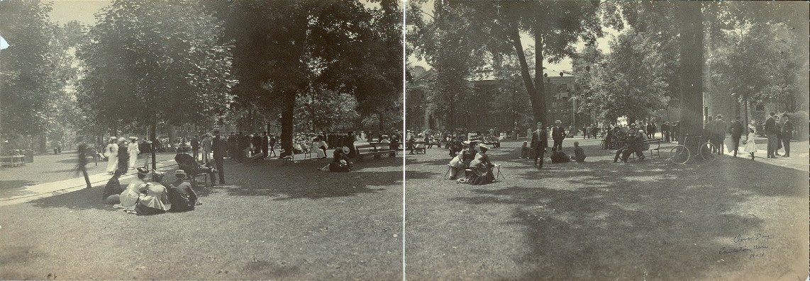 Princeton University Class Day c1904